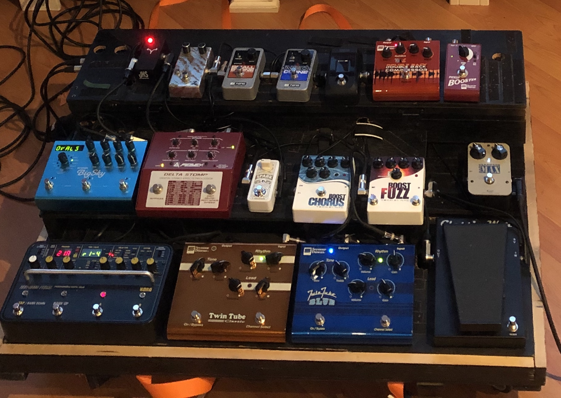 Large pedal board containing First row right to left Morley Classic Wah Seymour Duncan SFX-03 Twin Tube Blue Seymour Duncan SFX-11 Twin Tube Classic Korg SDD-3000 pedal Second row right to left J.Rockett MAX Tech 21 Boost Fuzz Tech 21 Boost Chorus TC electronic Spark Mini Peavey Delta Stomp Strymon Big Sky Third row right to left Seymour Duncan SFX-01 Pickup Booster Seymour Duncan SFX-09 Double Back Compressor Korg Pitch Black EHX Neo Clone EHX Small Stone mini Genevieve FX SDD-preamp JHS Buffered splitter